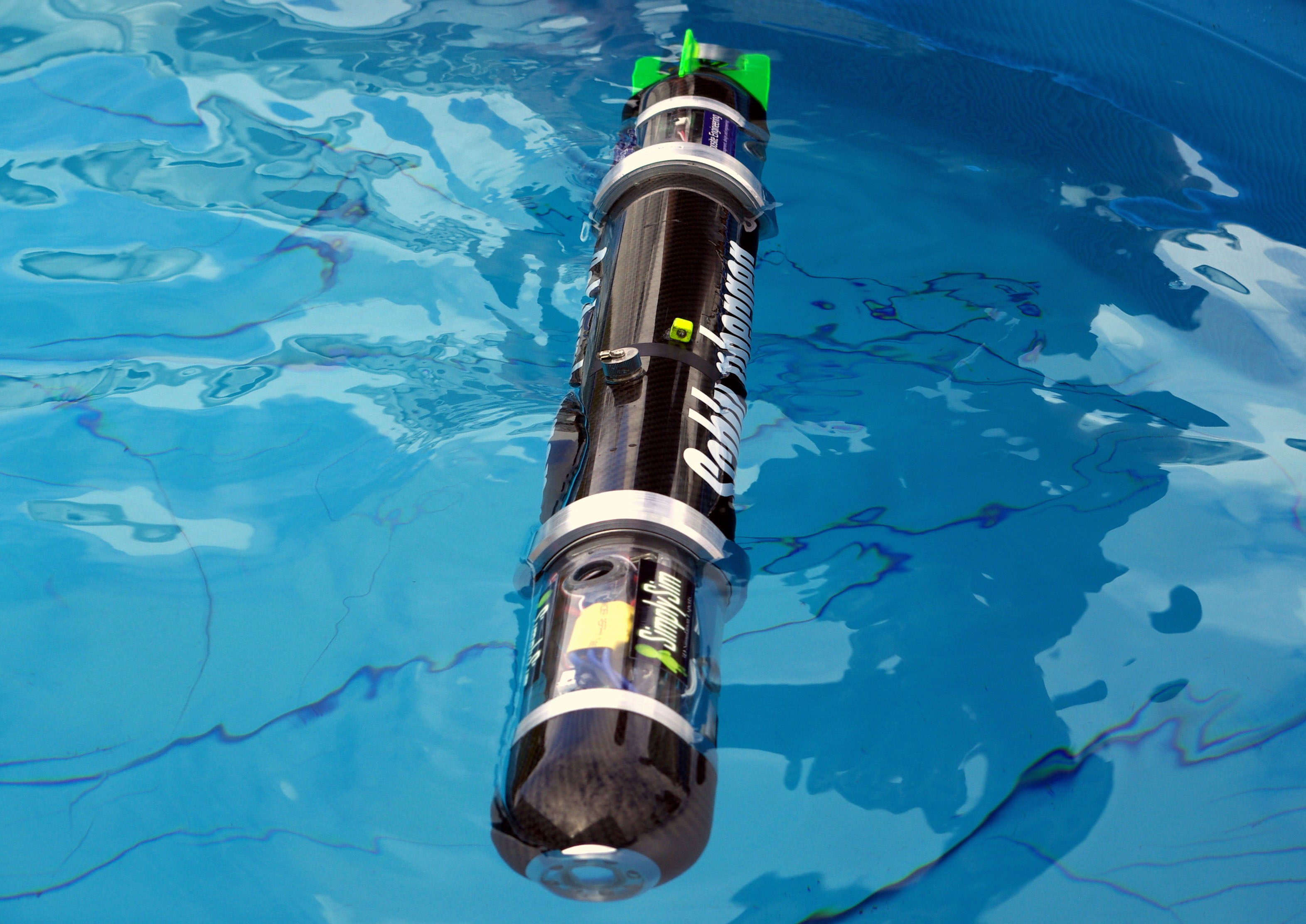 This photo was taken at the Student Autonomous Underwater Challenge Europe (SAUC-E) competition. The Autonomous Underwater Vehicle (AUV) is floating in the outside test tank awaiting initialisation. The competition was held in IFREMER, Brest, France. The Blackghost AUV is designed to undertake an underwater assault course autonomously with no outside control. The AUV took over a year to build, weighs about 7kg and is 1.1m long. A 1GHz computer, batteries, cameras and motors are crammed inside the 80mm diameter hull, which has been designed to be deployed through an ice bore hole for future scientific research missions